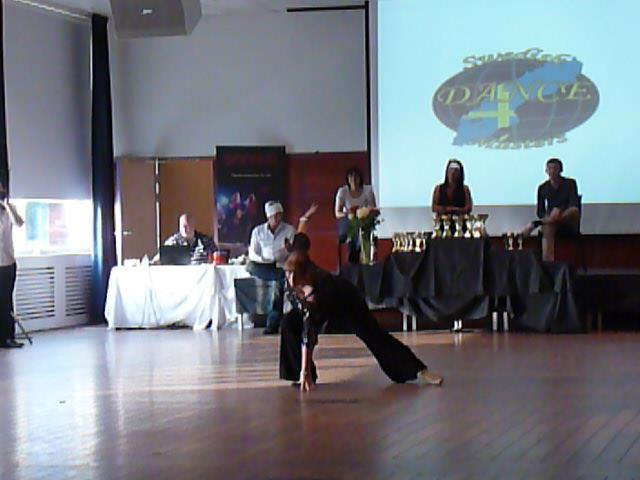 Swedish Masters (Linedance) Friday 21st - Sunday 23rd October 2011, Stenungsbaden Yacht Club